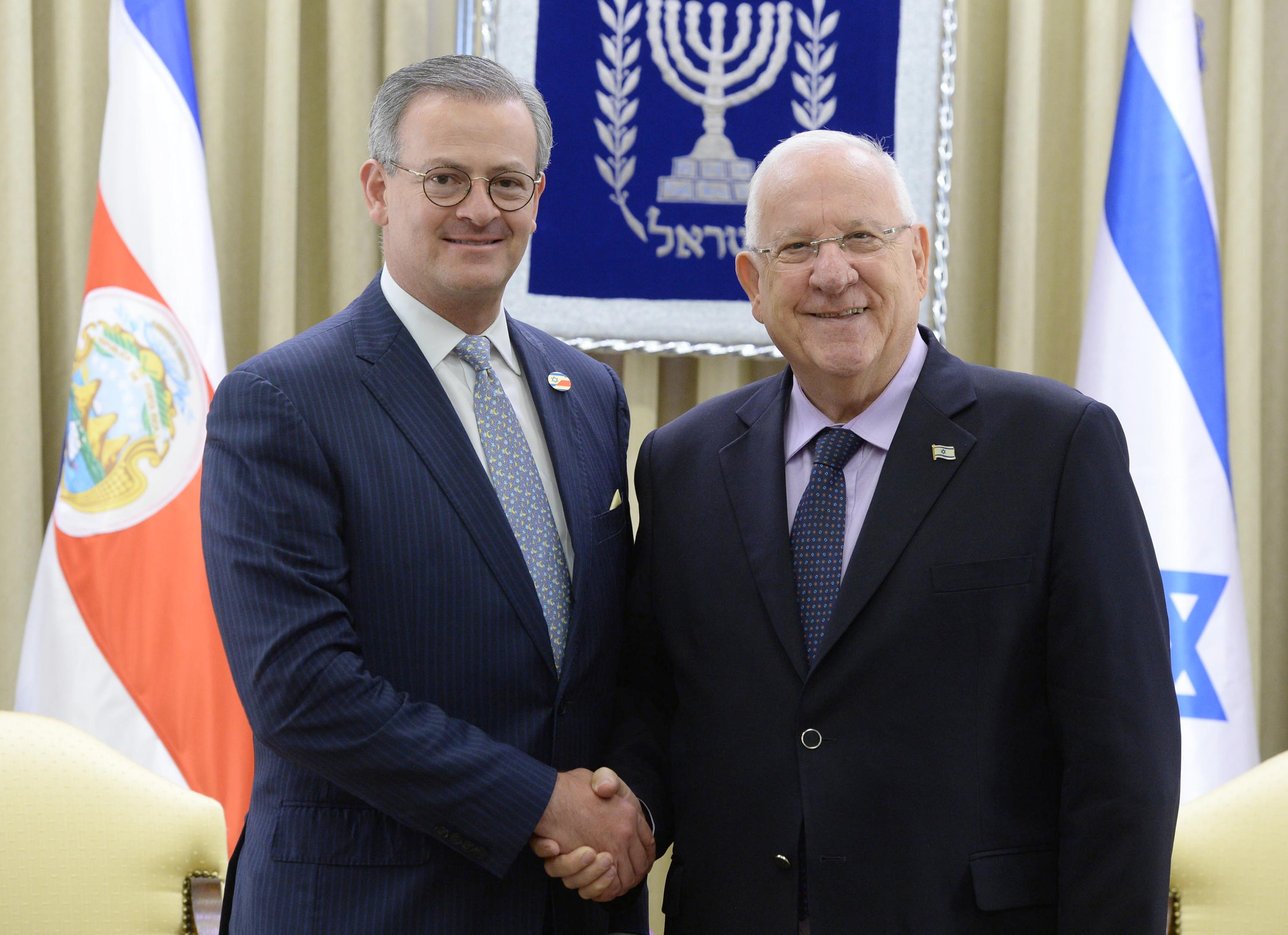 President Reuven Rivlin receiving Manuel González Sanz, Costa Rican Minister of Foreign Affairs, who visited Israel for the first time. Wednesday, May 17, 2017. Photo Credit: Mark Neyman / GPO